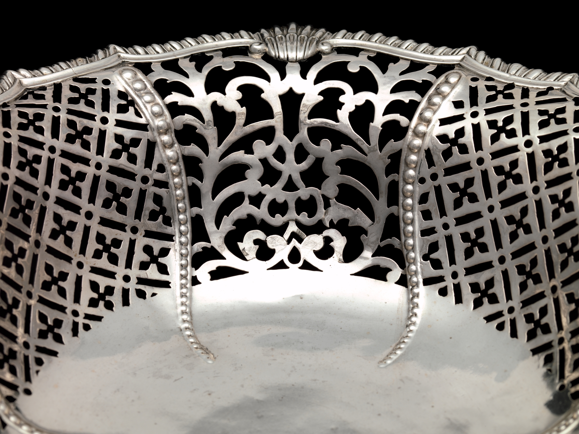 American; Basket; Silver